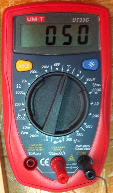 Multimeter UNI-T UT33C A multimeter or a multitester, also known as a volt/ohm meter or VOM, is an electronic measuring instrument that combines several measurement functions in one unit.